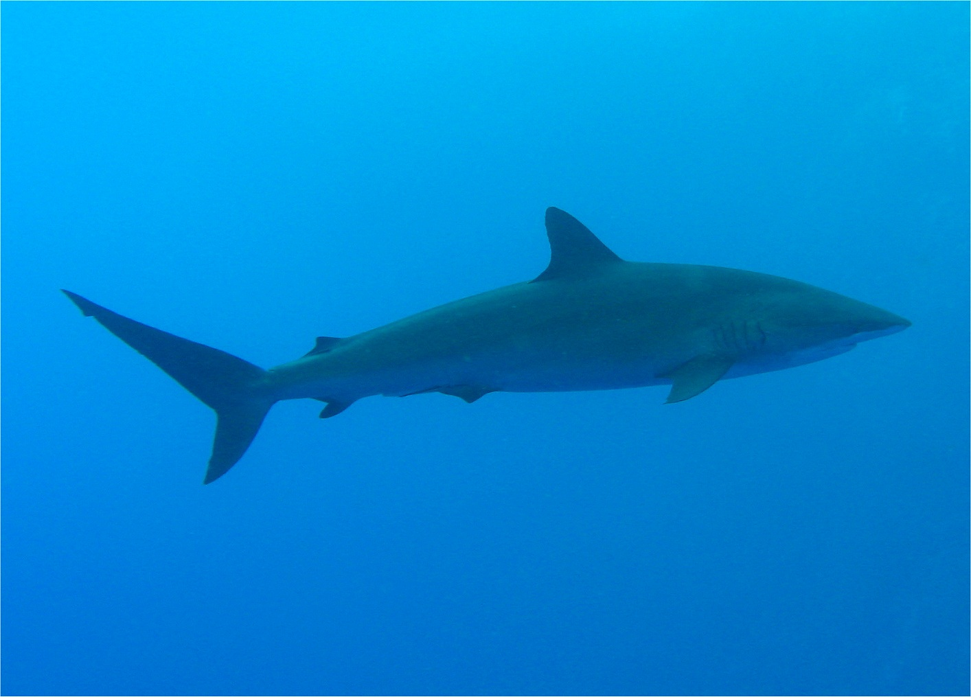 An image of the Silky Shark. The photo was taken on 21 October 2006 at Small Brother Reef in Egypt in the Red Sea. Photo: Johan Lantz, Malmö SWEDEN, 2006